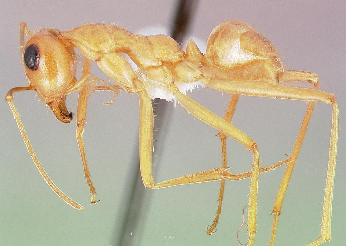 Profile view of ant Myrmecocystus mexicanus specimen casent0005421.